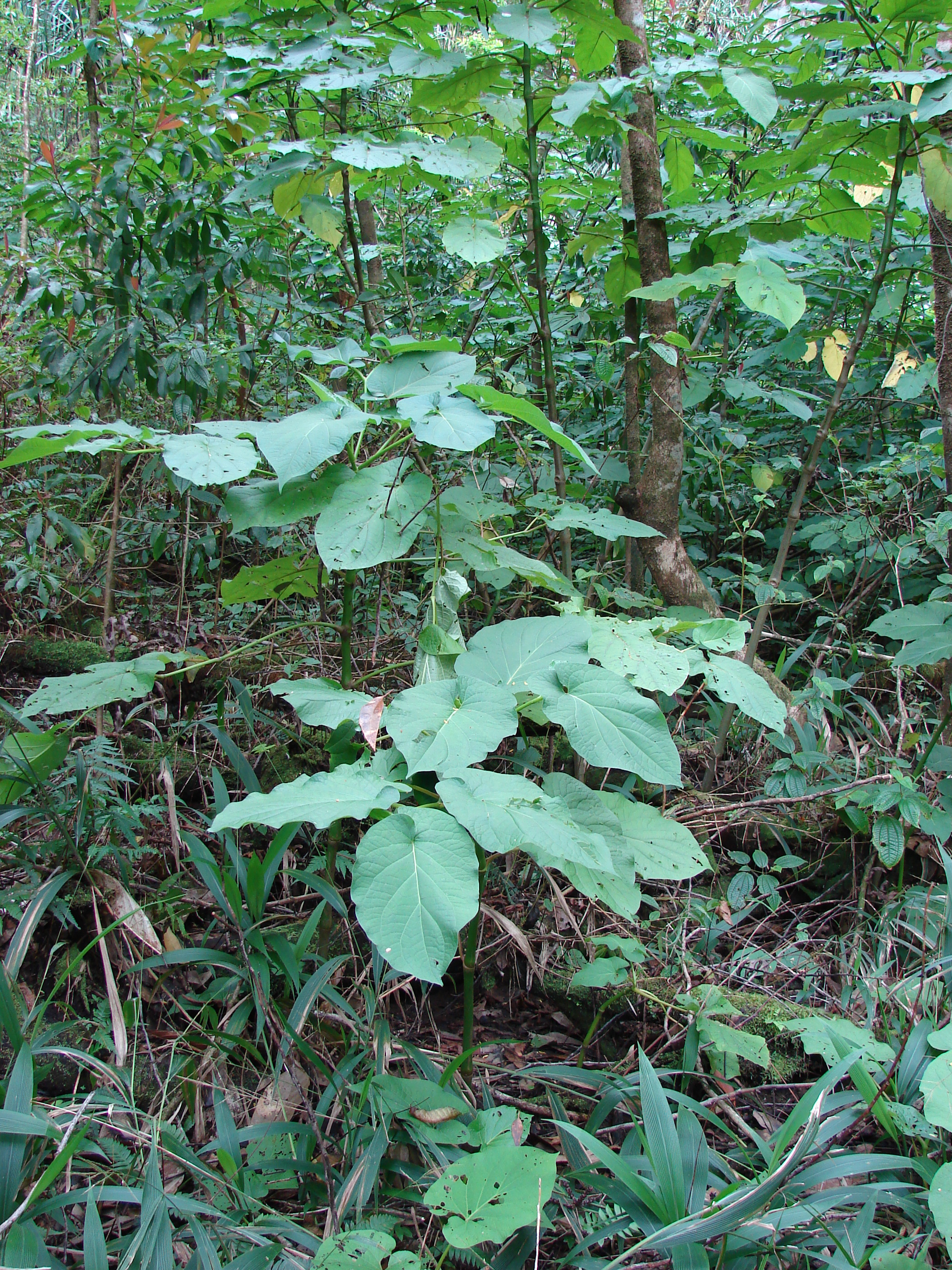 Piper auritum (leaves). Location: Maui, Hana Hwy